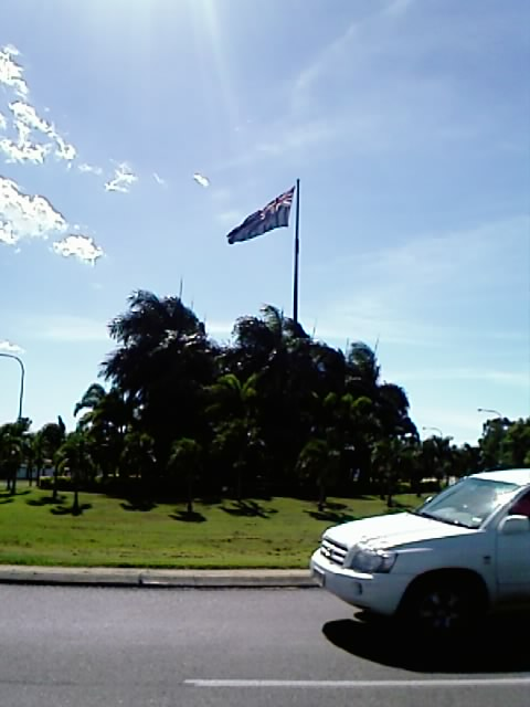 Author: WikiTownsvillian